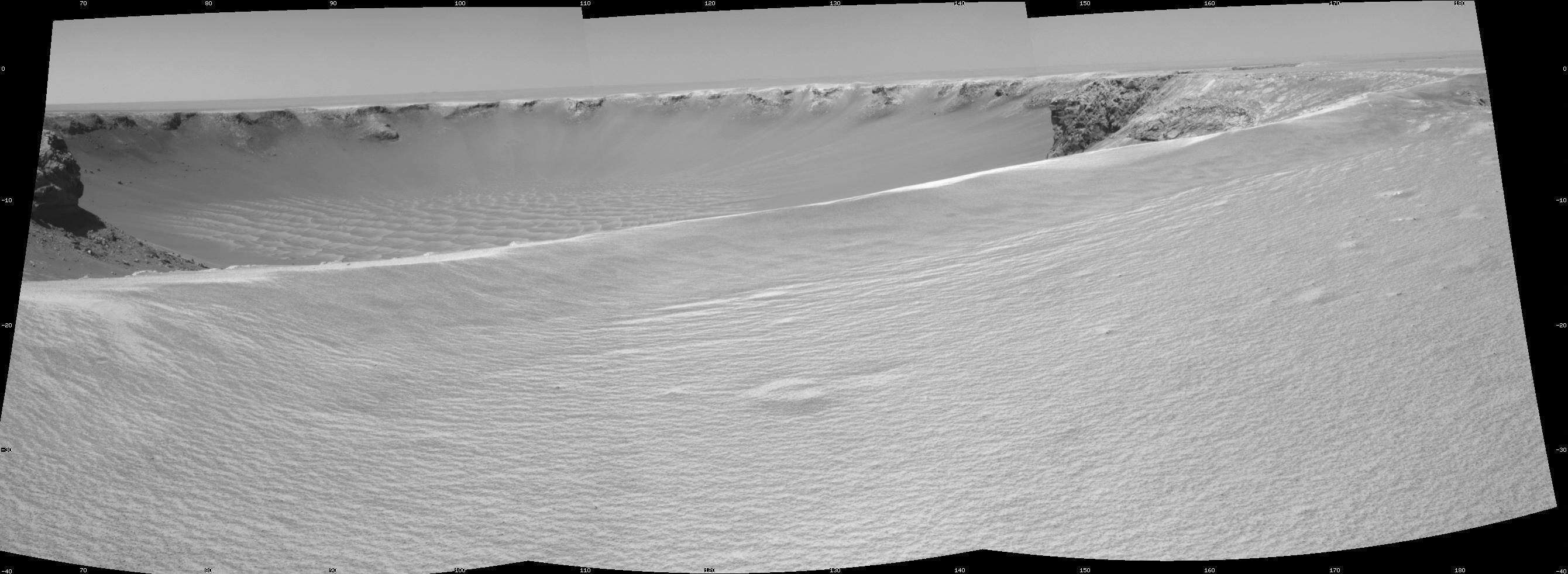 NASA's Mars rover Opportunity reached the rim of "Victoria Crater" in Mars' Meridiani Planum region with a 26-meter (85-foot) drive during the rover's 951st Martian day, or sol (Sept. 26, 2006). After the drive, the rover's navigation camera took the three exposures combined into this view of the crater's interior. This crater has been the mission's long-term destination for the past 21 Earth months. A half mile in the distance one can see about 20 percent of the far side of the crater framed by the rocky cliffs in the foreground to the left and right of the image. The rim of the crater is composed of alternating promontories, rocky points towering approximately 70 meters (230 feet) above the crater floor, and recessed alcoves. The bottom of the crater is covered by sand that has been shaped into ripples by the Martian wind. The position at the end of the sol 951 drive is about six meters from the lip of an alcove called "Duck Bay." The rover team planned a drive for sol 952 that would move a few more meters forward, plus more imaging of the near and far walls of the crater. Victoria Crater is about five times wider than "Endurance Crater," which Opportunity spent six months examining in 2004, and about 40 times wider than "Eagle Crater," where Opportunity first landed. This view is presented as a cylindrical projection with geometric seam correction. Image Credit: NASA/JPL-Caltech